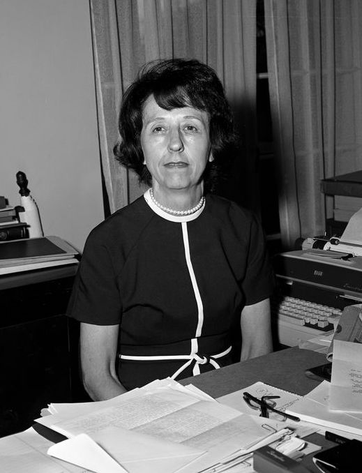 Personal Secretary to the President Evelyn Lincoln at her desk in the President’s Secretary’s Office, White House, Washington, D.C.